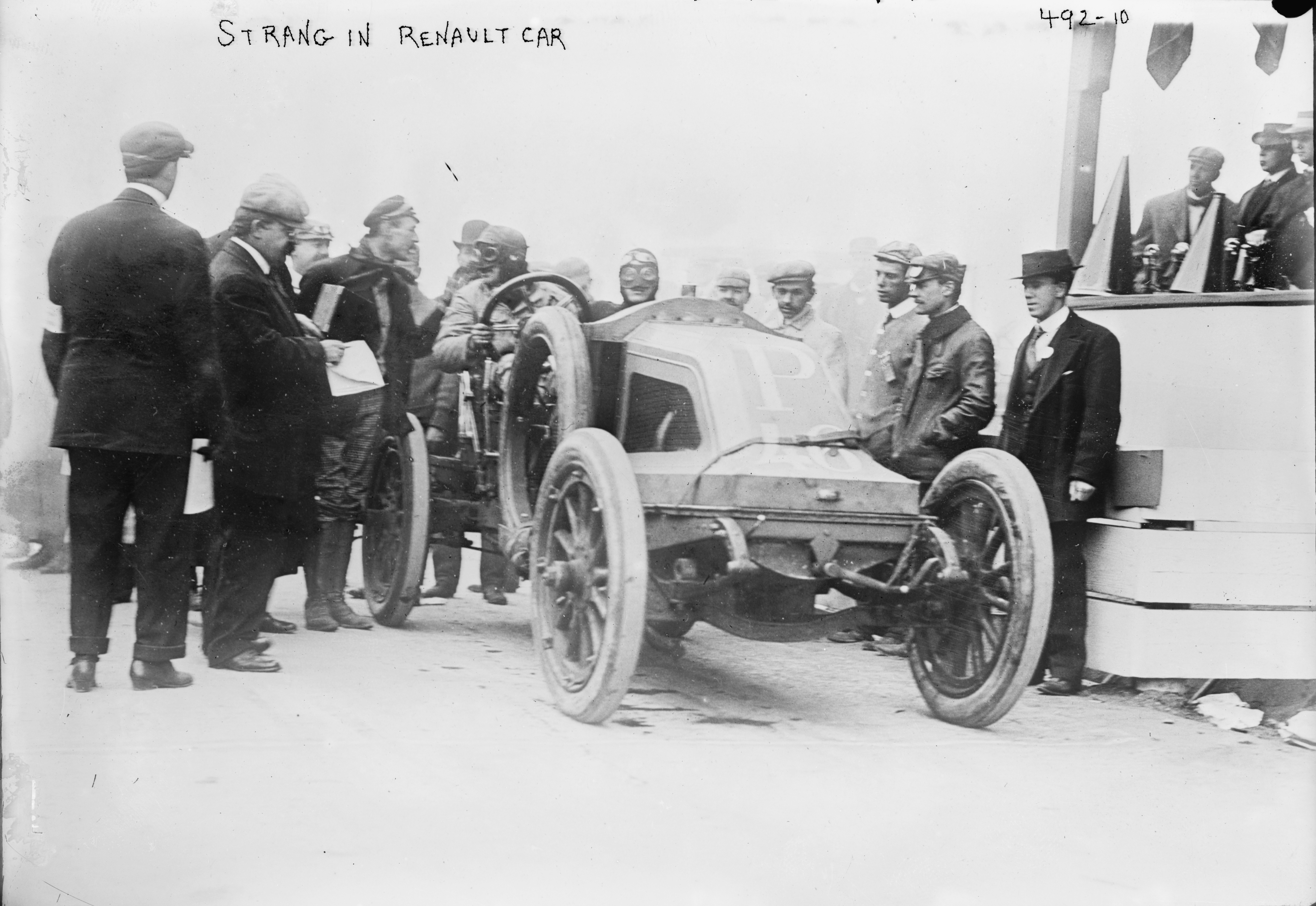 Lewis Strang in a Renault racing car in 1908